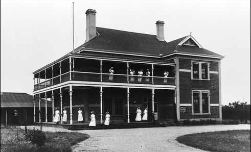 The Mareeba Babies' Hospital, the special children's hospital founded by Helen Mayo